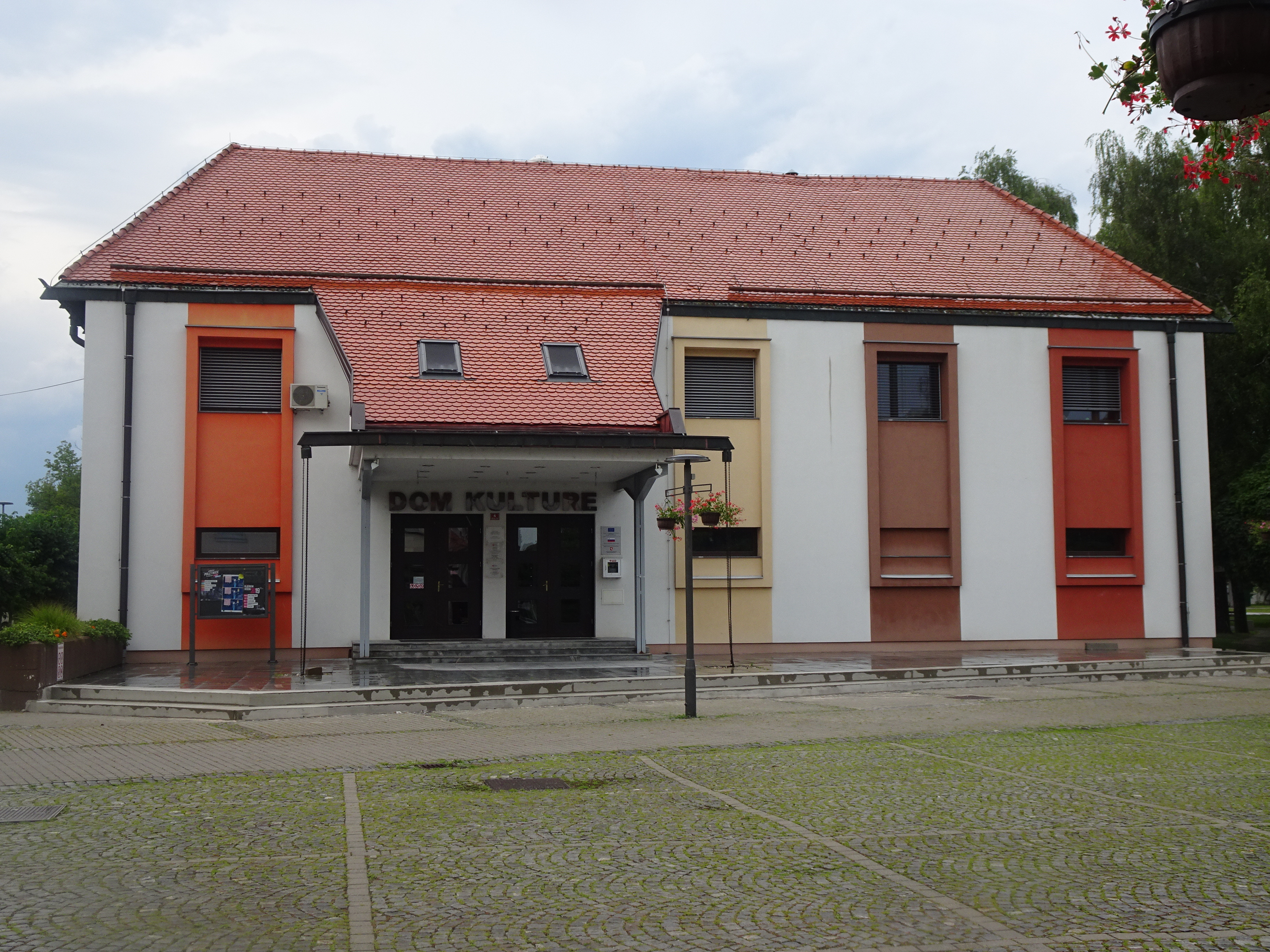 Public library Slovenske Konjice, Slovenia